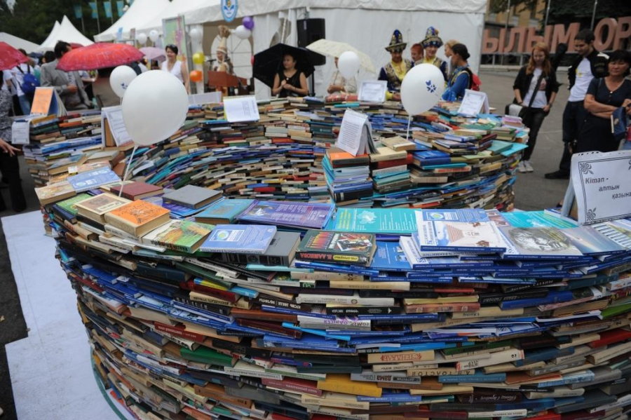 Kitap fest Amaty bookcrossing